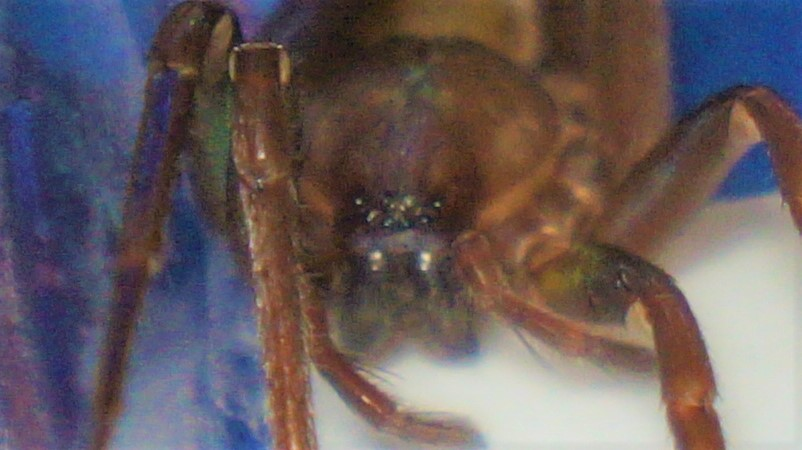 Image shows the eyes, pedipalps, and the fangs of a Titiotus sp.